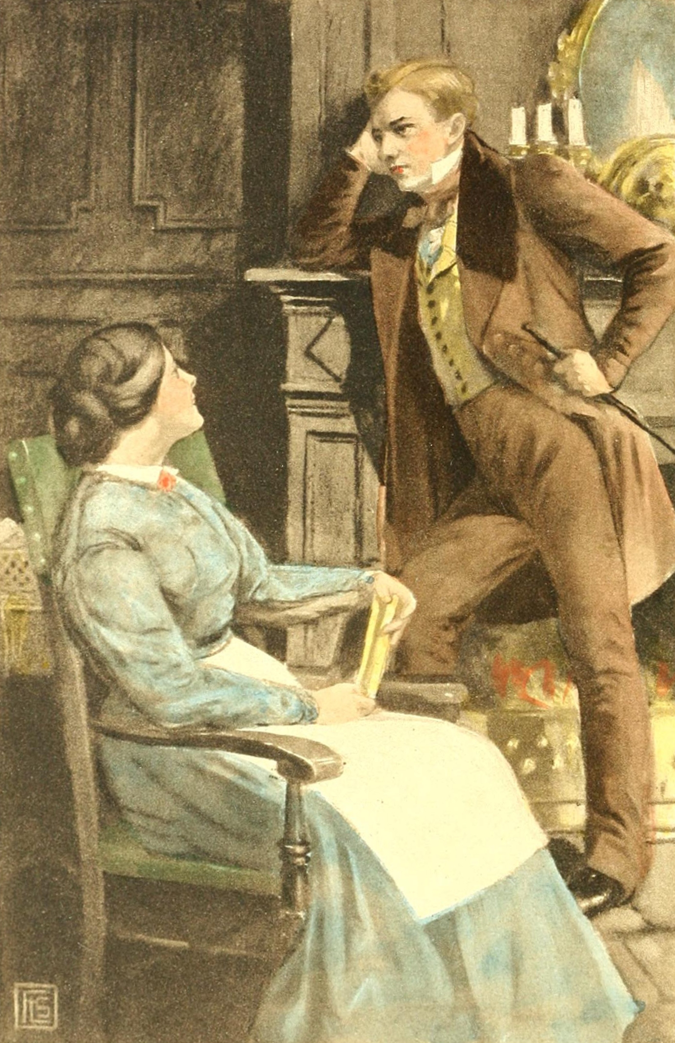 Mary Garth and Fred Vincy from Middlemarch by George Eliot